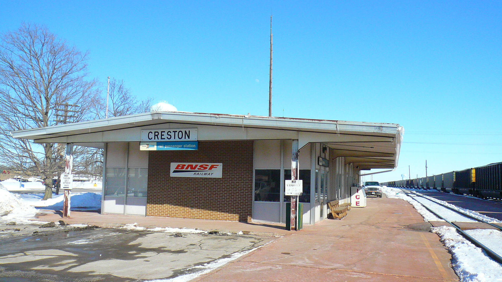 The current Amtrak station in Creston, Iowa, USA